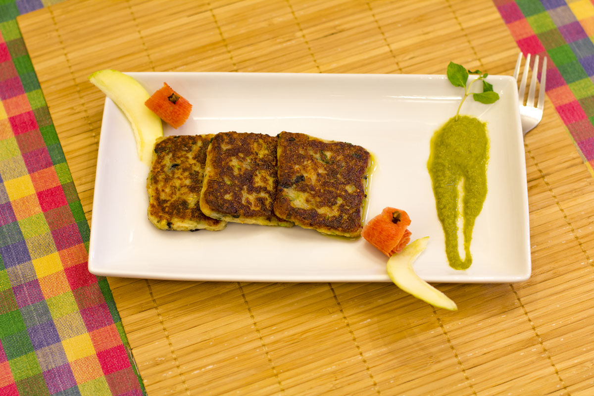 Aloo tickki - North Indian Savory